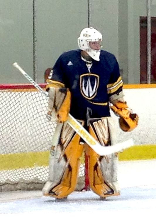 Parker Van Buskirk, Windsor Lancers, CIS - Photo taken by Devan Mighton of CIS men's hockey.